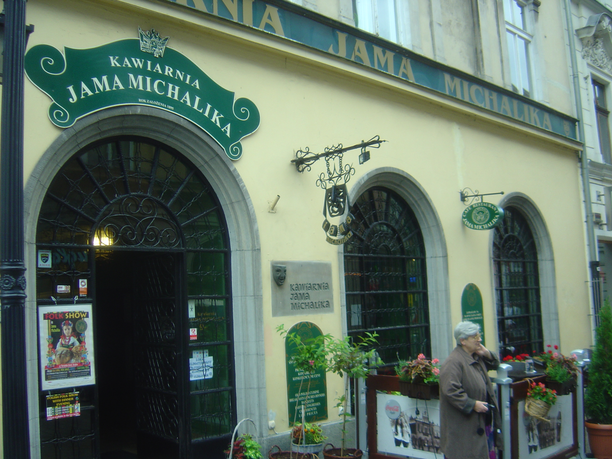 Cafe Jama Michalika in Poland